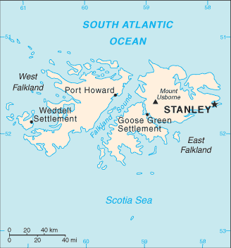 Falkland Islands map from CIA World Factbook